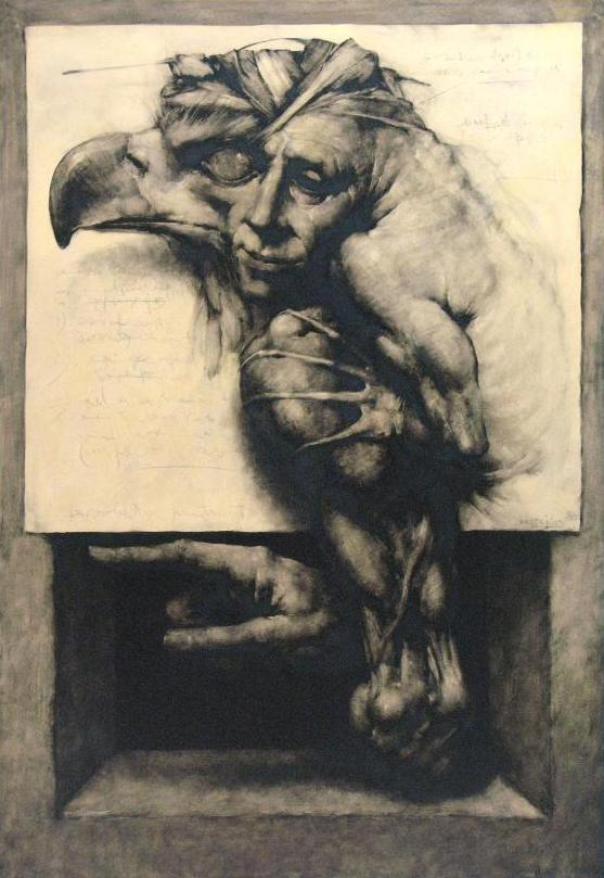 Mutand dAguila Joan Castejon Wax on Paper 1982 100x81